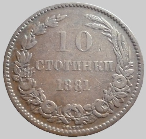 Bulgarian coin of 10 stotinkas, 1881, so called "Gologan"